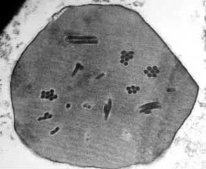 electron micrograph of nucleopolyhedrovirus